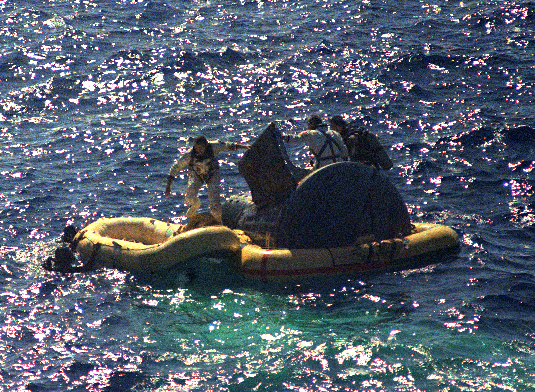 Astronauts L. Gordon Cooper Jr. and Charles Conrad Jr. exit their spacecraft after splashdown of the Gemini-5 spacecraft. They are photographed boarding a life raft with the help of Navy divers.